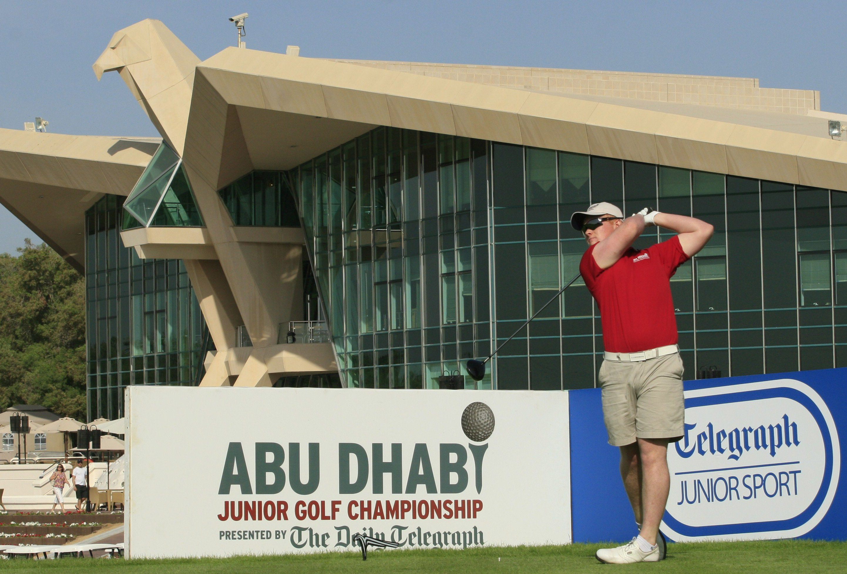 Chris Lloyd drives off in front of the clubhouse of The National Course at Abu Dhabi Golf Club during the Abu Dhabi Junior Golf Championship